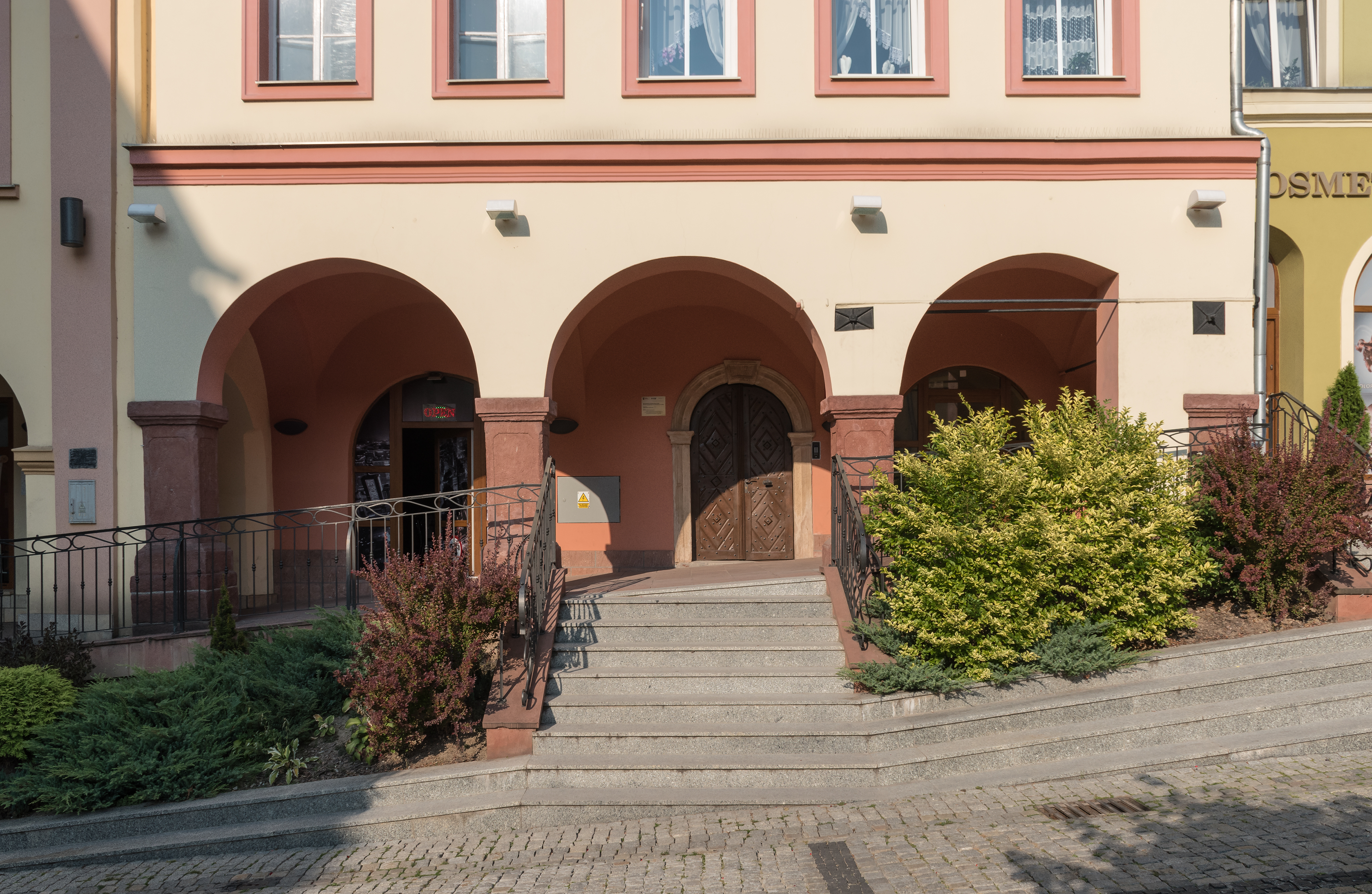 3 Market Square in Nowa Ruda